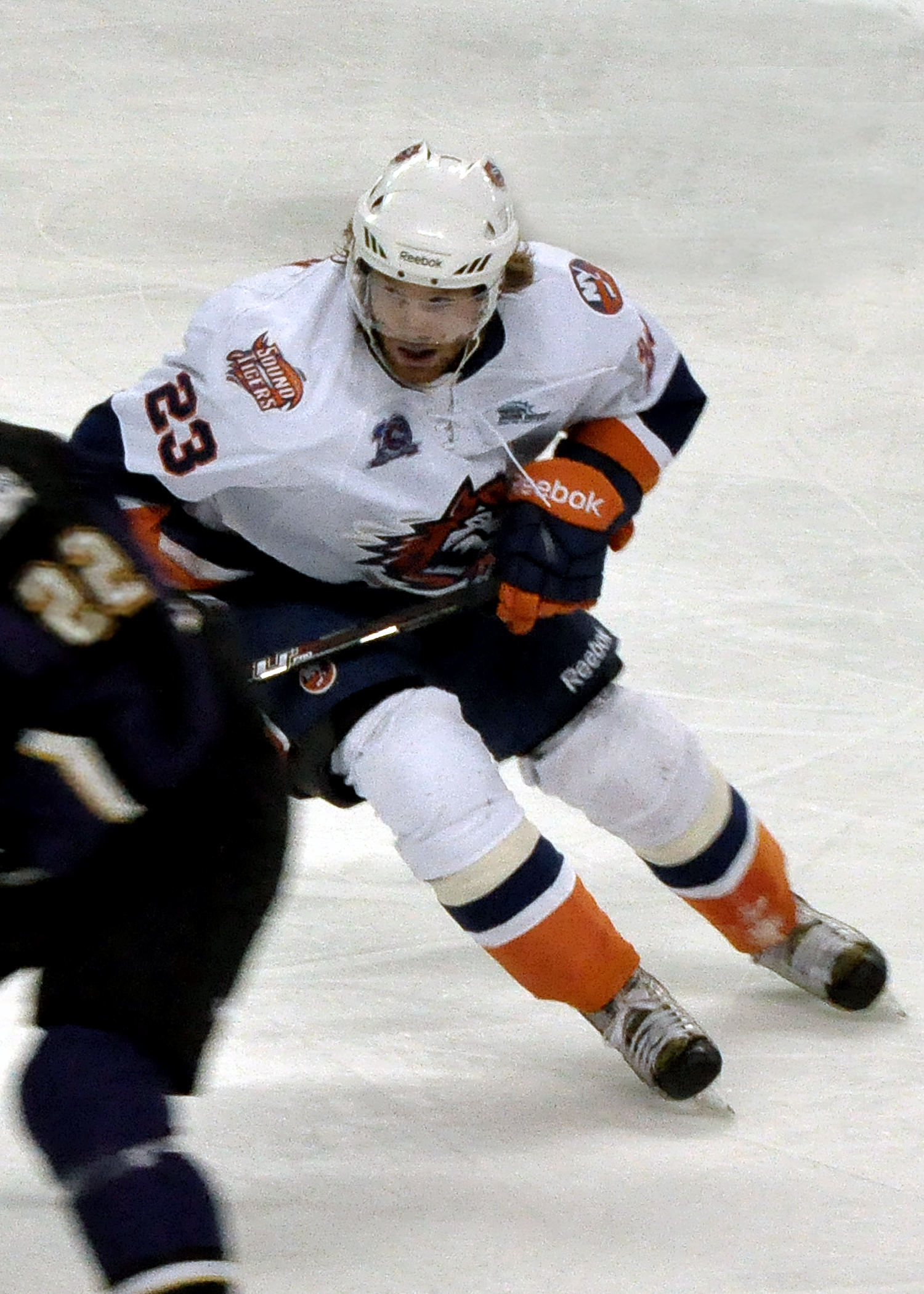 Robin Figren, (#23) right wing for AHL Bridgeport Sound Tigers hockey team during a game at the Arena at Harbor Yard in Bridgeport, Connecticut on February 20, 2011 against the Manchester Monarchs. The Sound Tigers are the affiliate of the New York Islanders.